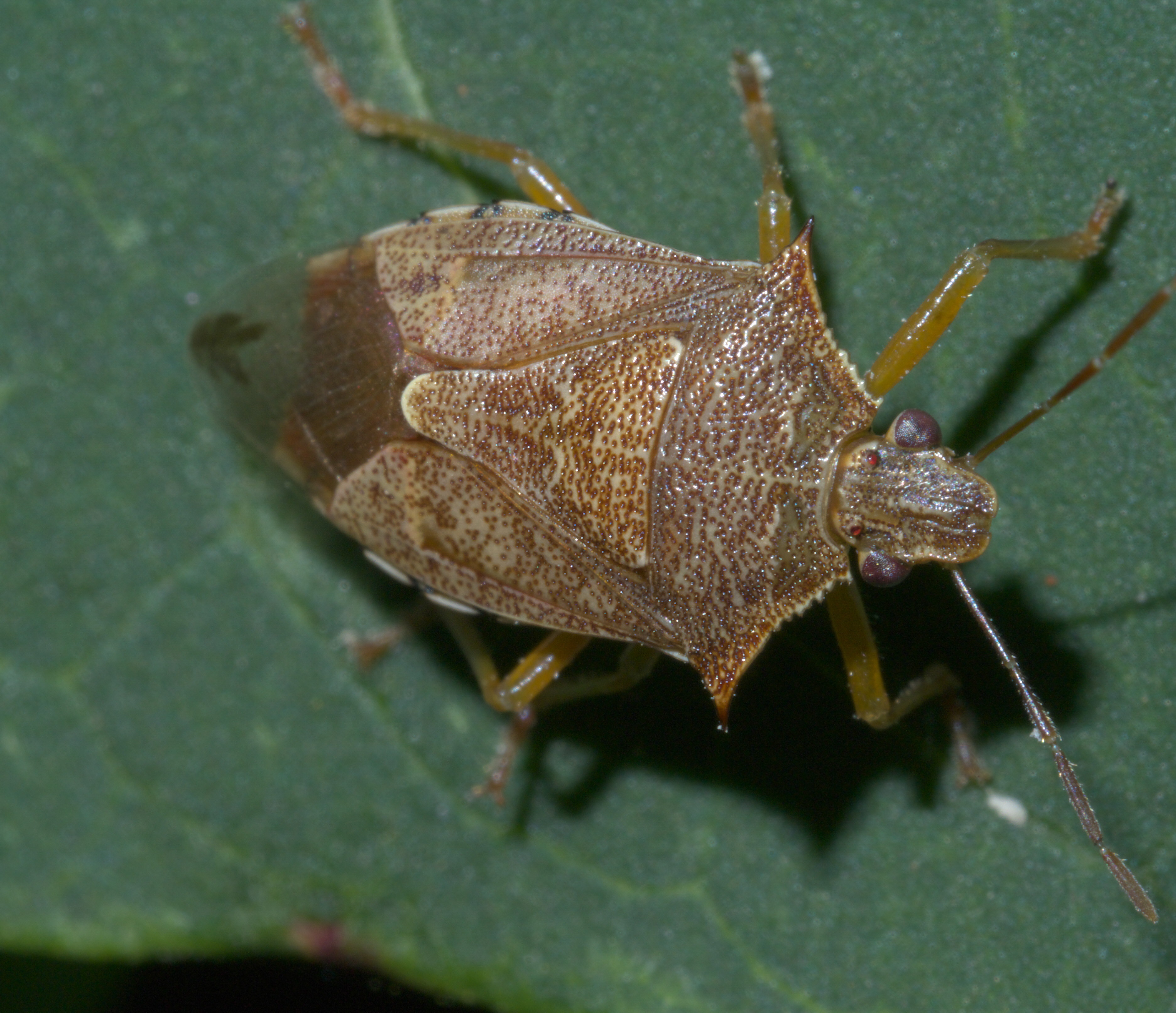 Podisus maculiventris, spined soldier bug, Size: 11 mm, ID Confidence: 98